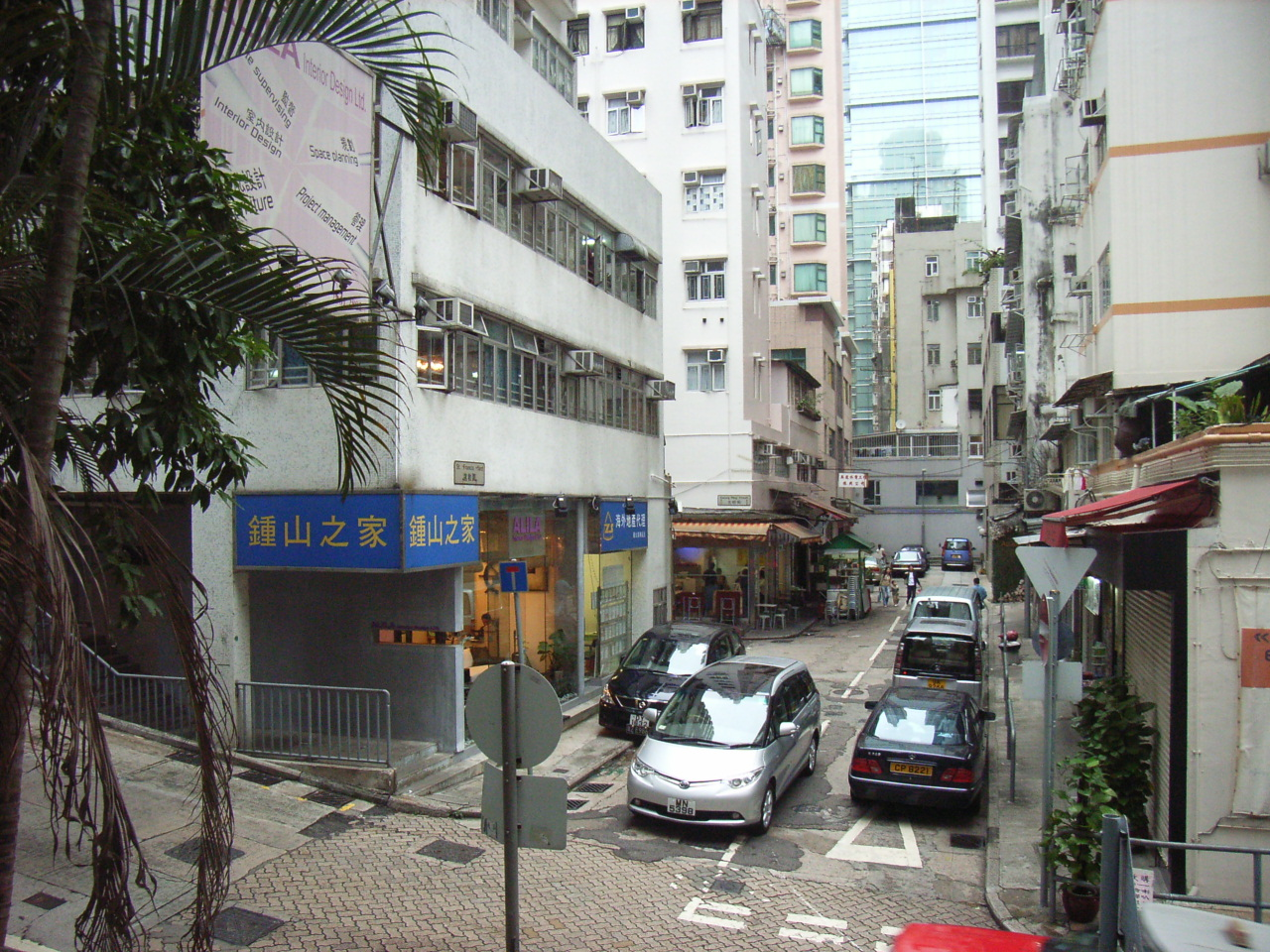 (A1 Wong East).